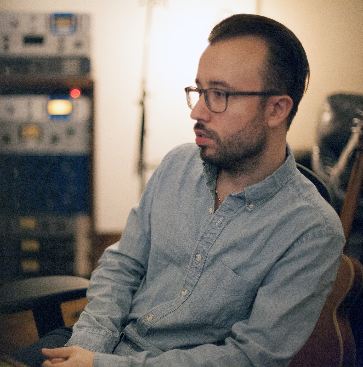 Ben Rice, American Record Producer, 2017